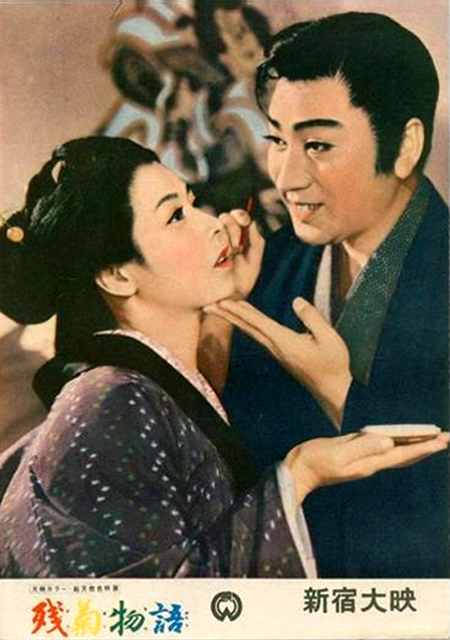 Chikage Awashima and Kazuo Hasegawa from the movie poster for 1956 Japanese movie Zangiku Story (残菊物語 Zangiku Monogatari).